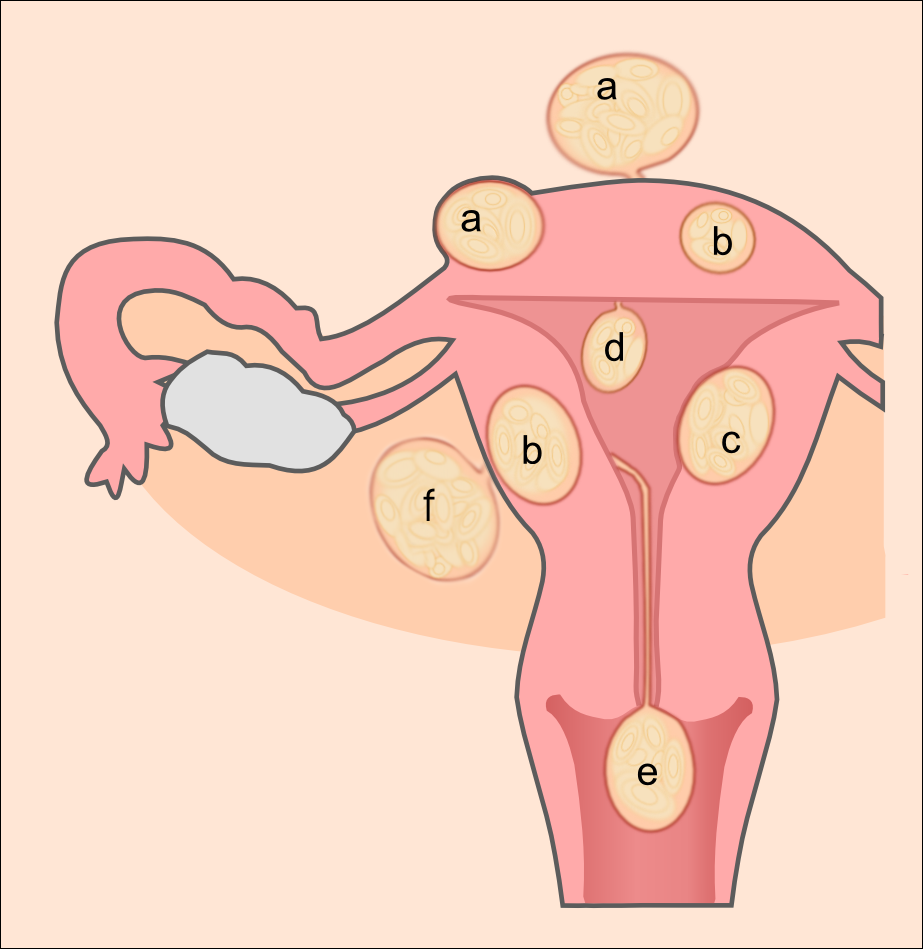 Schematic drawing of various types of uterine fibroids a=subserosal fibroids b=intramural fibroids c=submucosal fibroid d=pedunculated submucosal fibroid e=fibroid in statu nascendi f=intraligamental fibroid